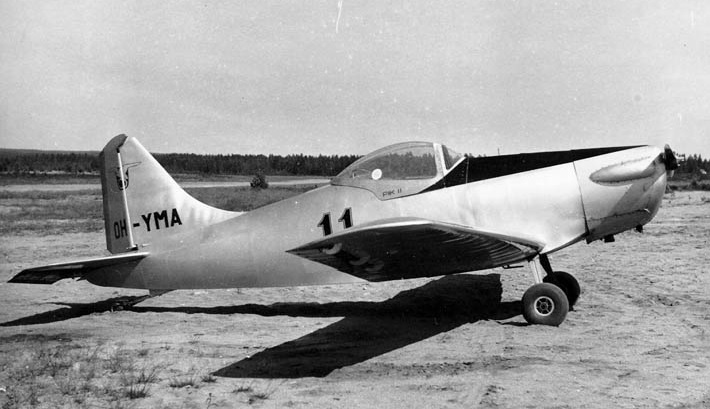 OH-YMA at Jämi in July 1961.